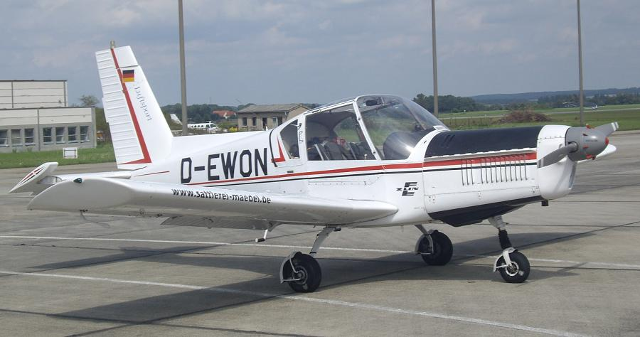 Zlín Z-42M (D-EWON) at „Flugtage Bautzen“, Germany